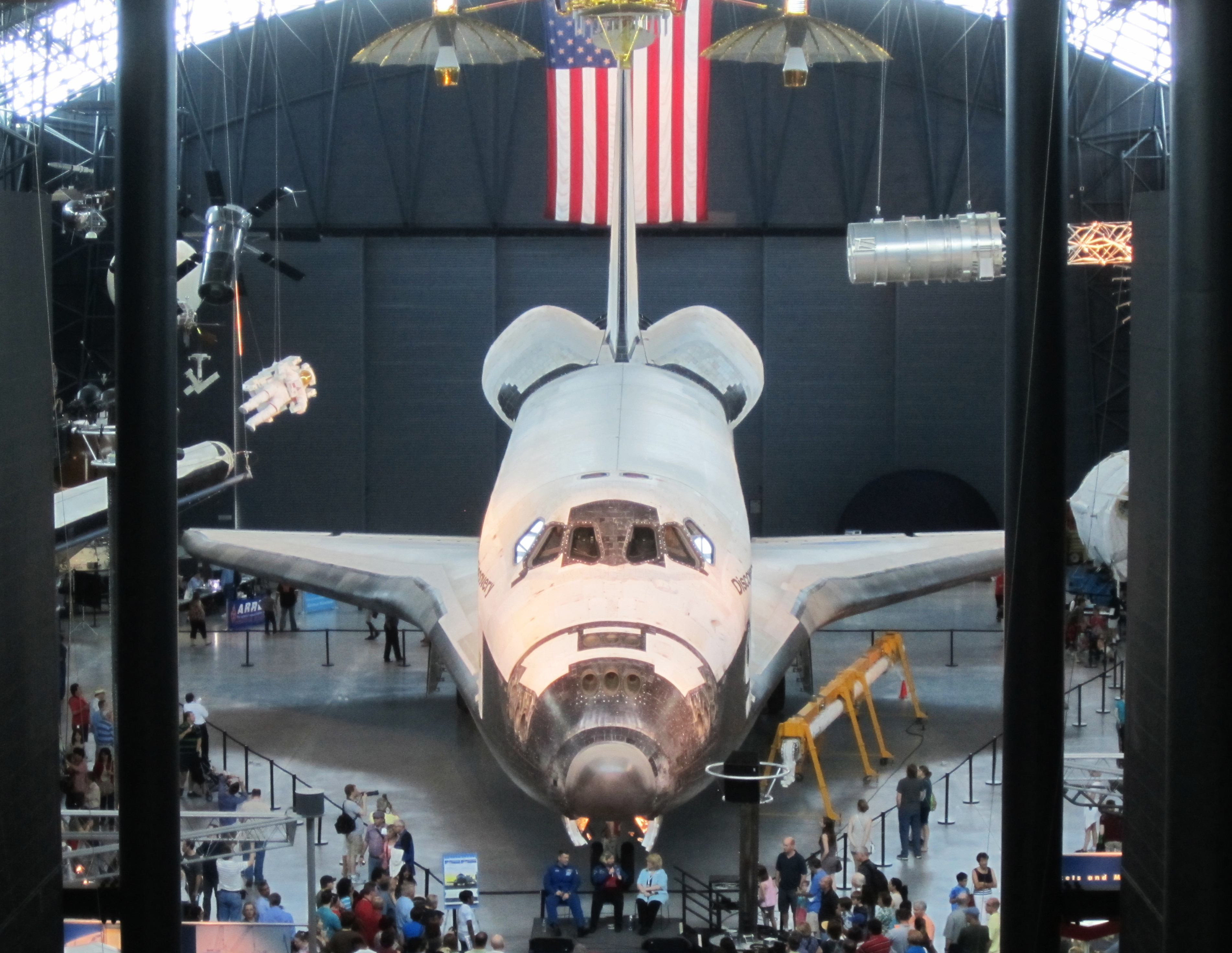 The Space Shuttle Discovery at the Steven F. Udvar-Hazy Center on May 5, 2012. The shuttle arrived at Dulles on April 17, and was transferred to the Udvar Hazy Center on April 19, where it replaced the Space Shuttle Enterprise, which had been on display since the museum's opening in 2003.